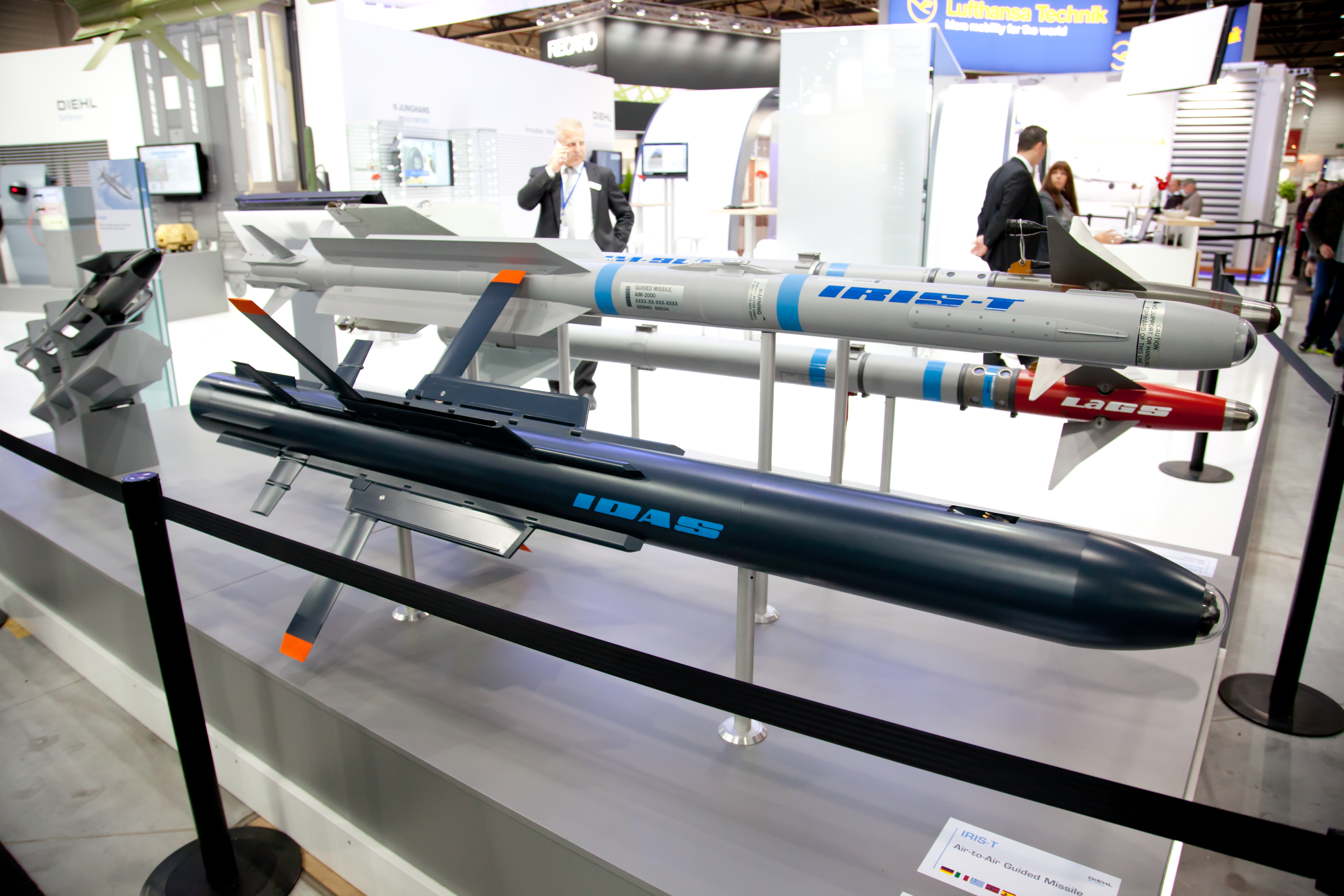 ILA Berlin Air Show 2012 ; IDAS and IRIS-T missiles; Diehl Defence